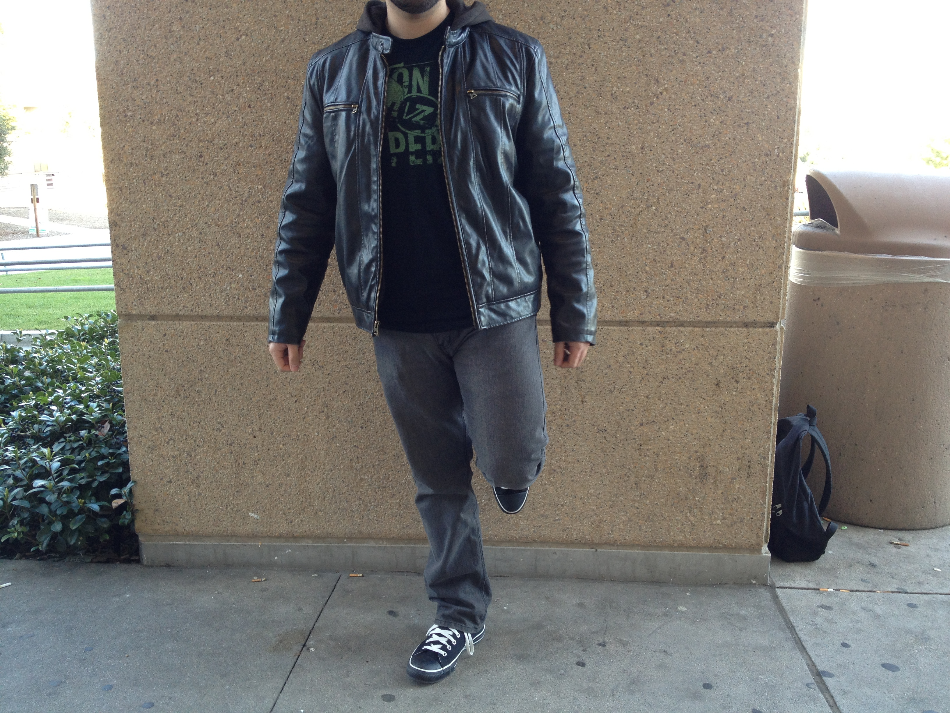 shows a leg stand on the affected foot for maximum weight distribution